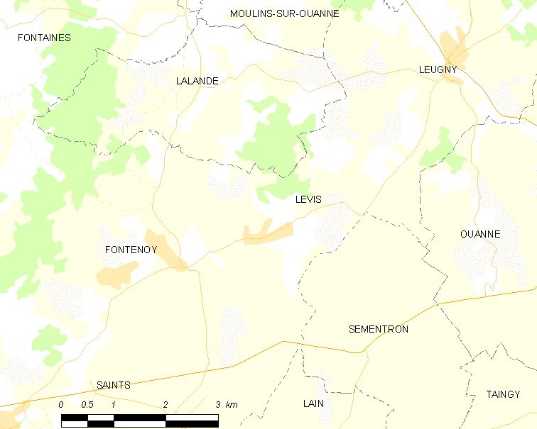 Map of French municipality Levis